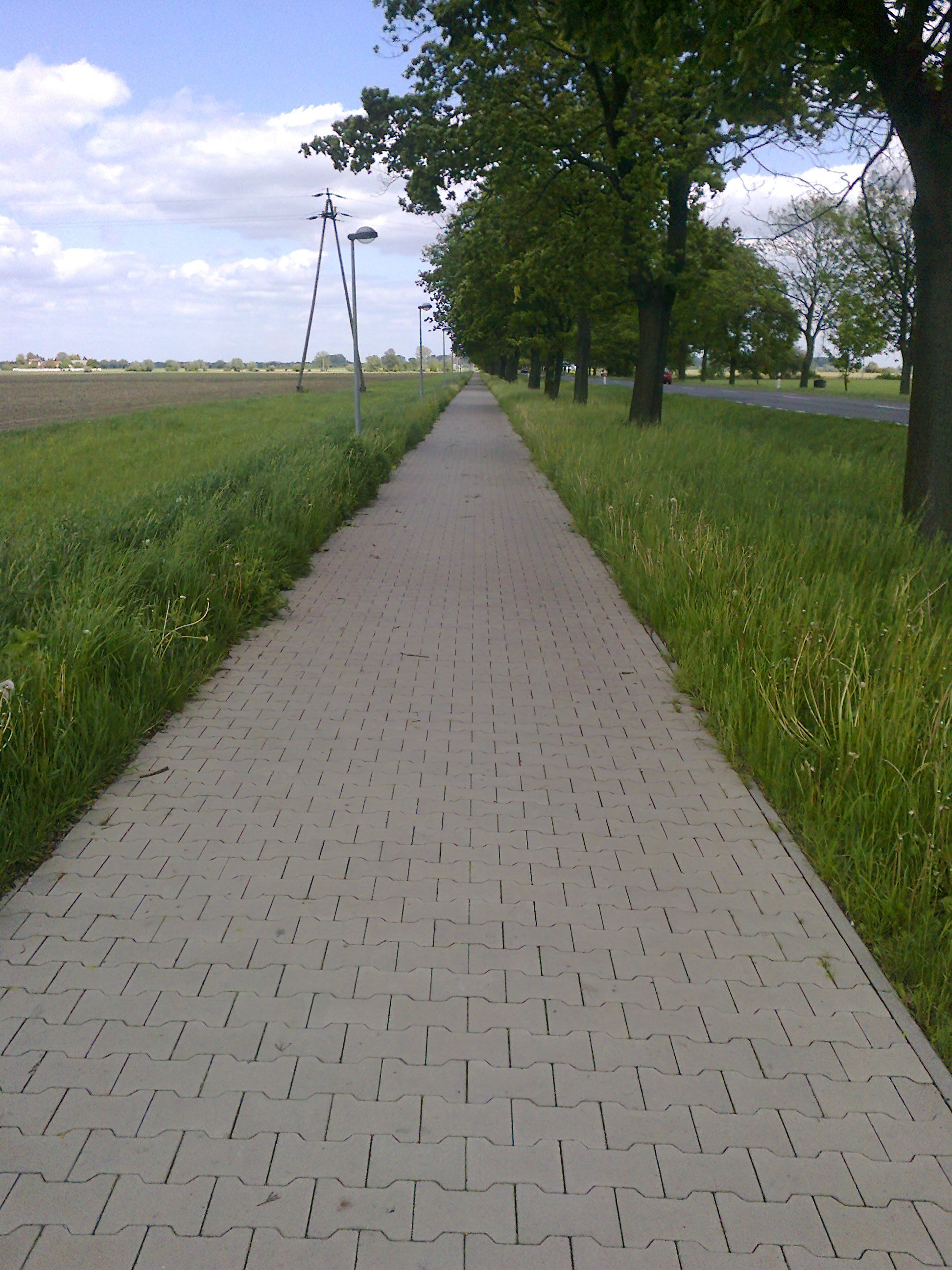 The bike road - Grodzisk Wielkopolski (Poland)